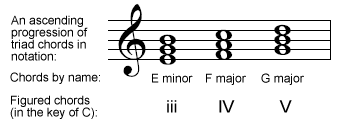 Diagram of a musical chord progression.